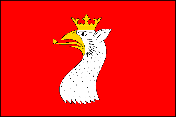 Municipal flag of Osečná town, Liberec District, Czech Republic.